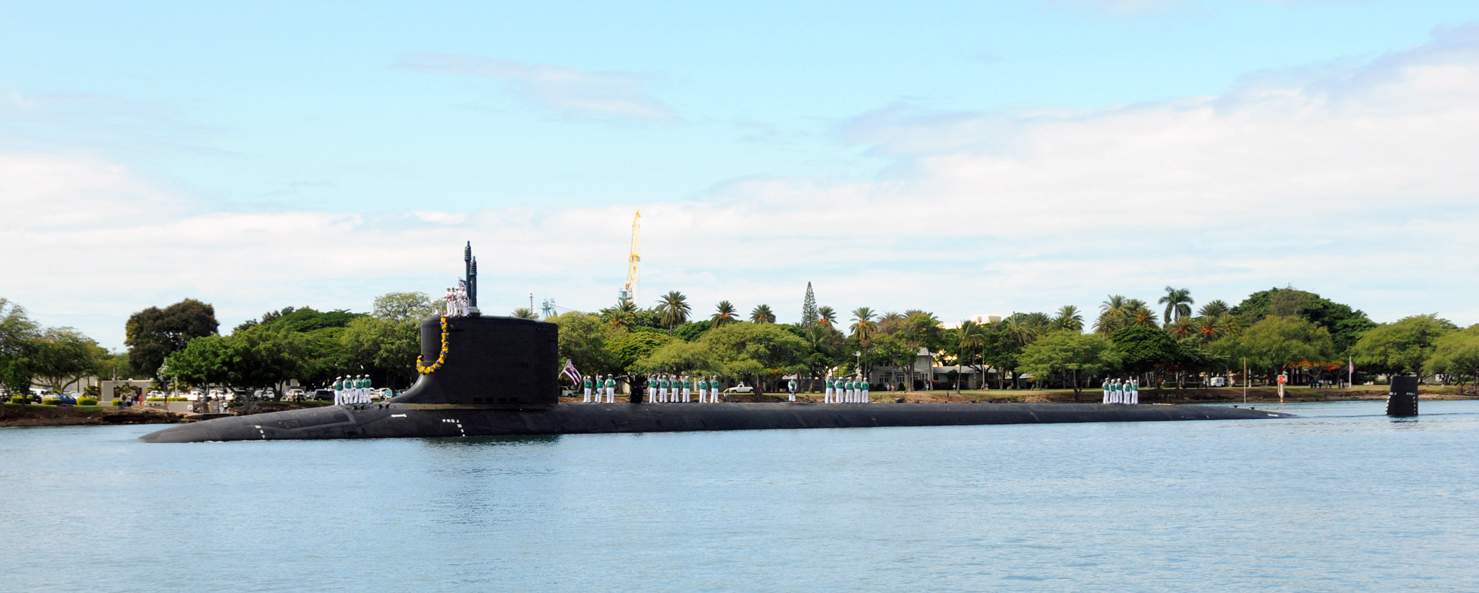 PEARL HARBOR (July 23, 2009) Sailors man the rails aboard the Virginia-class attack submarine USS Hawaii (SSN 776) as she pulls into her new homeport at Naval Station Pearl Harbor. USS Hawaii is the third Virginia-class submarine constructed and the first submarine to bear the name of the Aloha state. Hawaii is capable of supporting a multitude of missions, including anti-submarine warfare, anti-surface ship warfare, strike, naval special warfare involving special operations forces, intelligence, surveillance, and reconnaissance, irregular warfare, and mine warfare. (U.S. Navy photo by Mass Communication Specialist 2nd Class Robert Stirrup/Released)